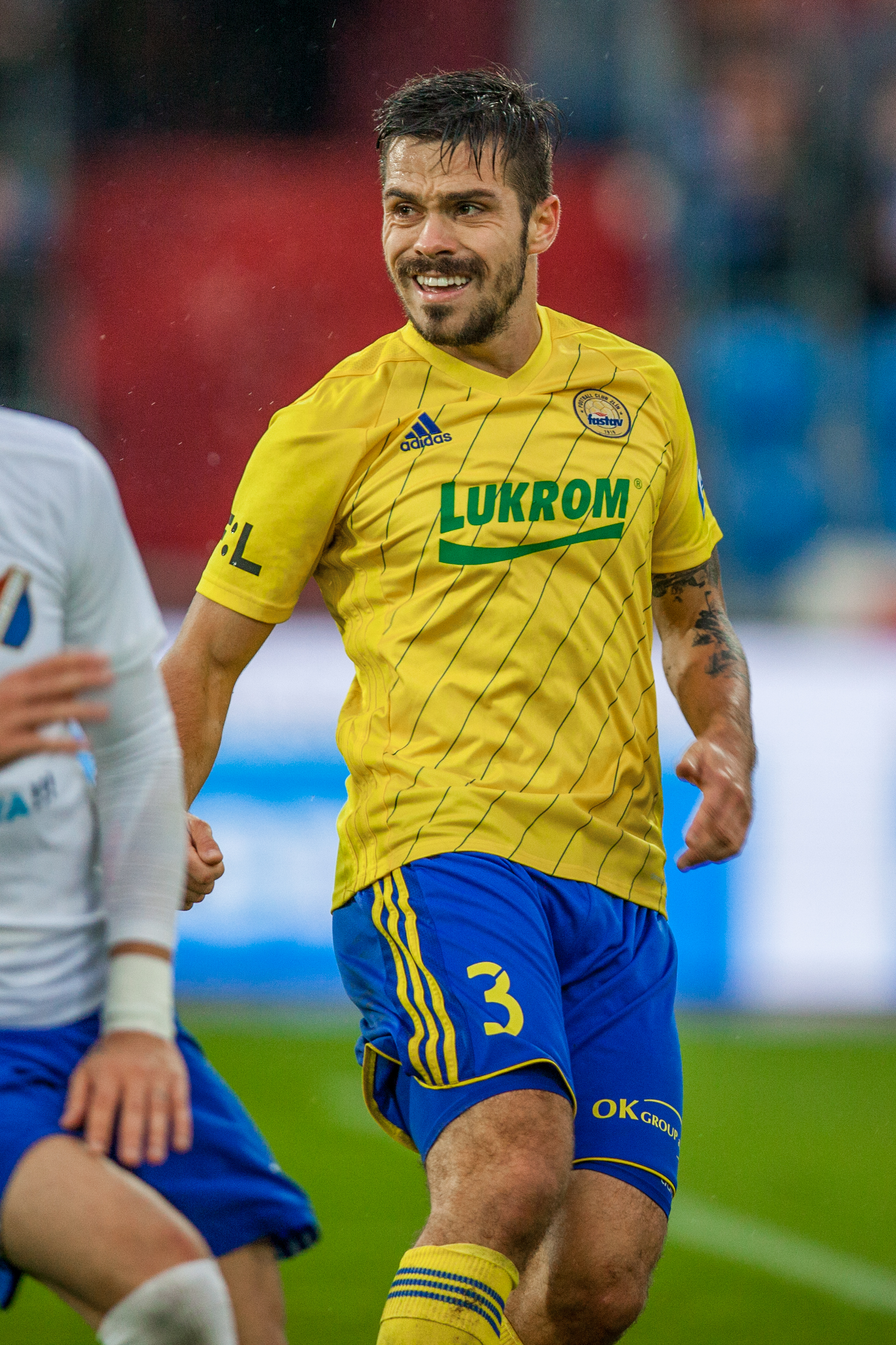 Petr Buchta in a Czech First League (Fortuna:Liga) match between FC Baník Ostrava and FC Fastav Zlín (4:0), 5 October 2019, Městský stadion Ostrava, Ostrava-Vítkovice, Ostrava-City District, Moravian-Silesian Region, Czechia Personality rights warningAlthough this work is freely licensed or in the public domain, the person(s) shown may have rights that legally restrict certain re-uses unless those depicted consent to such uses. In these cases, a model release or other evidence of consent could protect you from infringement claims.